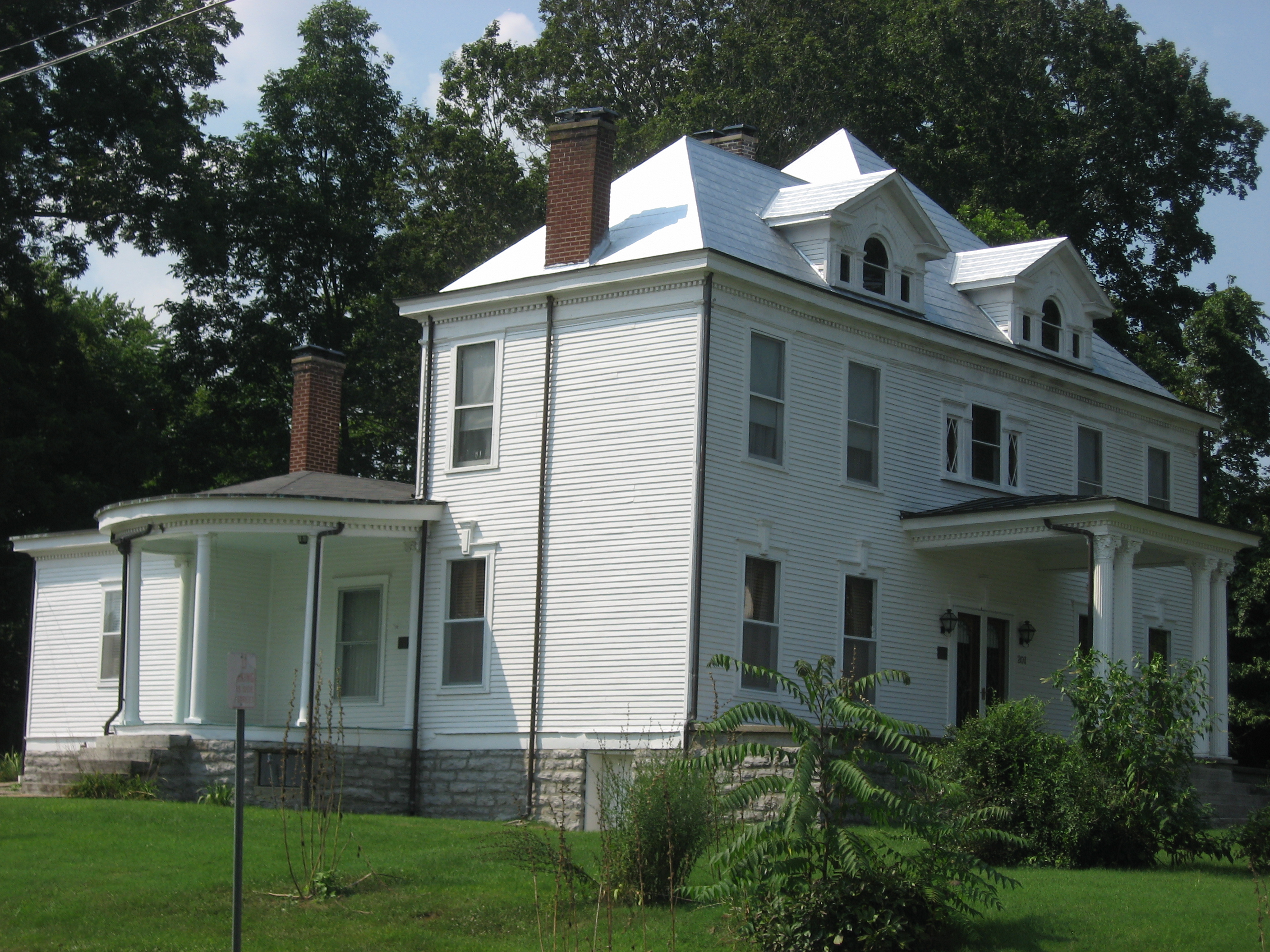 Front of the Woodson Lewis House, located at 201 N. Main Street (U.S. Route 68 in Greensburg, Kentucky, United States. Built in 1904, it is listed on the National Register of Historic Places.